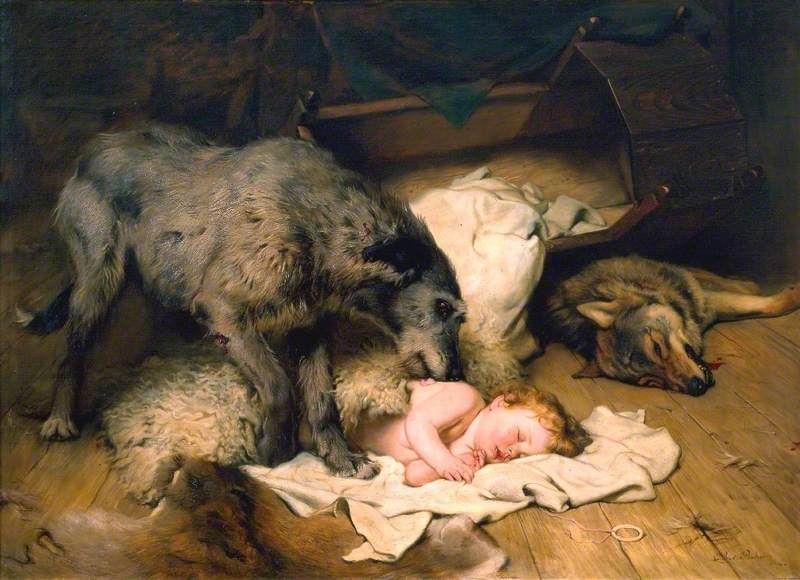 Illustration of the legend of Gelert